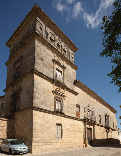 Plaza Vázquez de Molina; Úbeda, Andalucía, Jaén, Spain; ; ref: PM_091302_E_Ubeda; Palacio del Marqués de Mancera; Photographer: Paul M.R. Maeyaert; © Paul M.R. Maeyaert; ; Cultural heritage; Cultural heritage/UNESCO World Heritage Site; Europeana; Europe/Spain/Úbeda